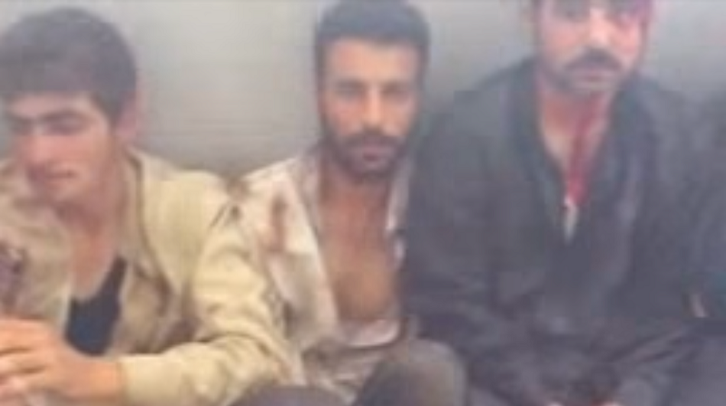 Syrian pro-government militiamen (called "Shabiha" by Syrian rebels) of the Berri clan, captured in Aleppo by the FSA's al-Tawhid Brigade.